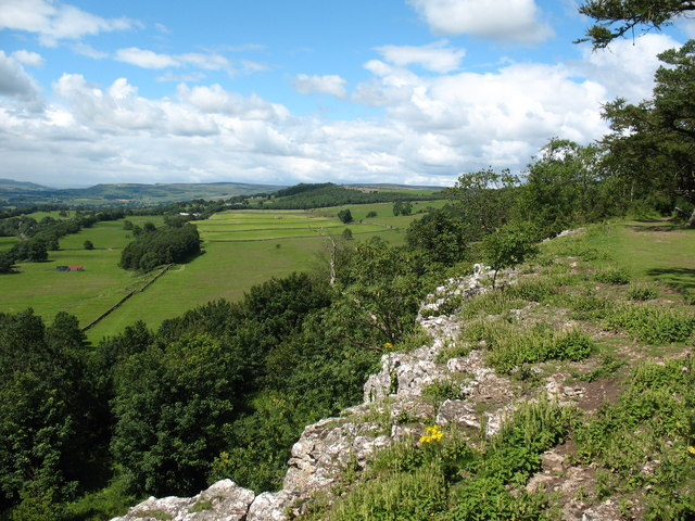 Limestone edge, Leyburn Shawl For much of its length the Shawl is bounded by limestone crags which overlook Wensleydale. This view westwards is towards Tullis Cote Farm.